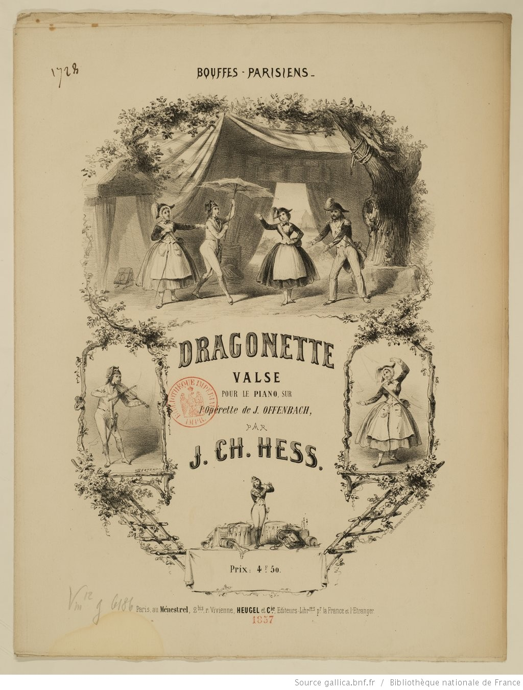 Title page of valse "Dragonette", arranged by Jean-Charles Hess from melodies from Jacques Offenbach's eponymous operetta